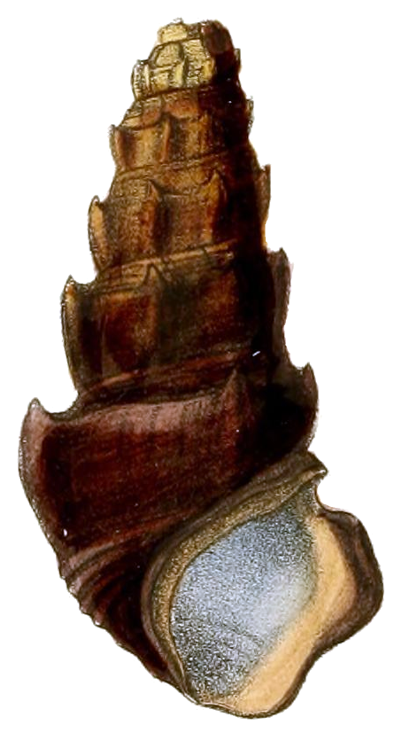 Drawing of apertural view of a shell of Madagasikara spinosa, synonym: Pirena spinosa Lamarck, 1822.